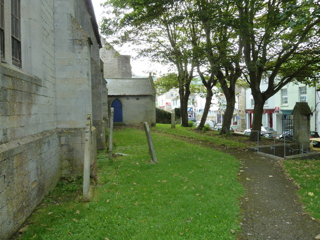 St John's Church Churchyard, Portland, Fortuneswell